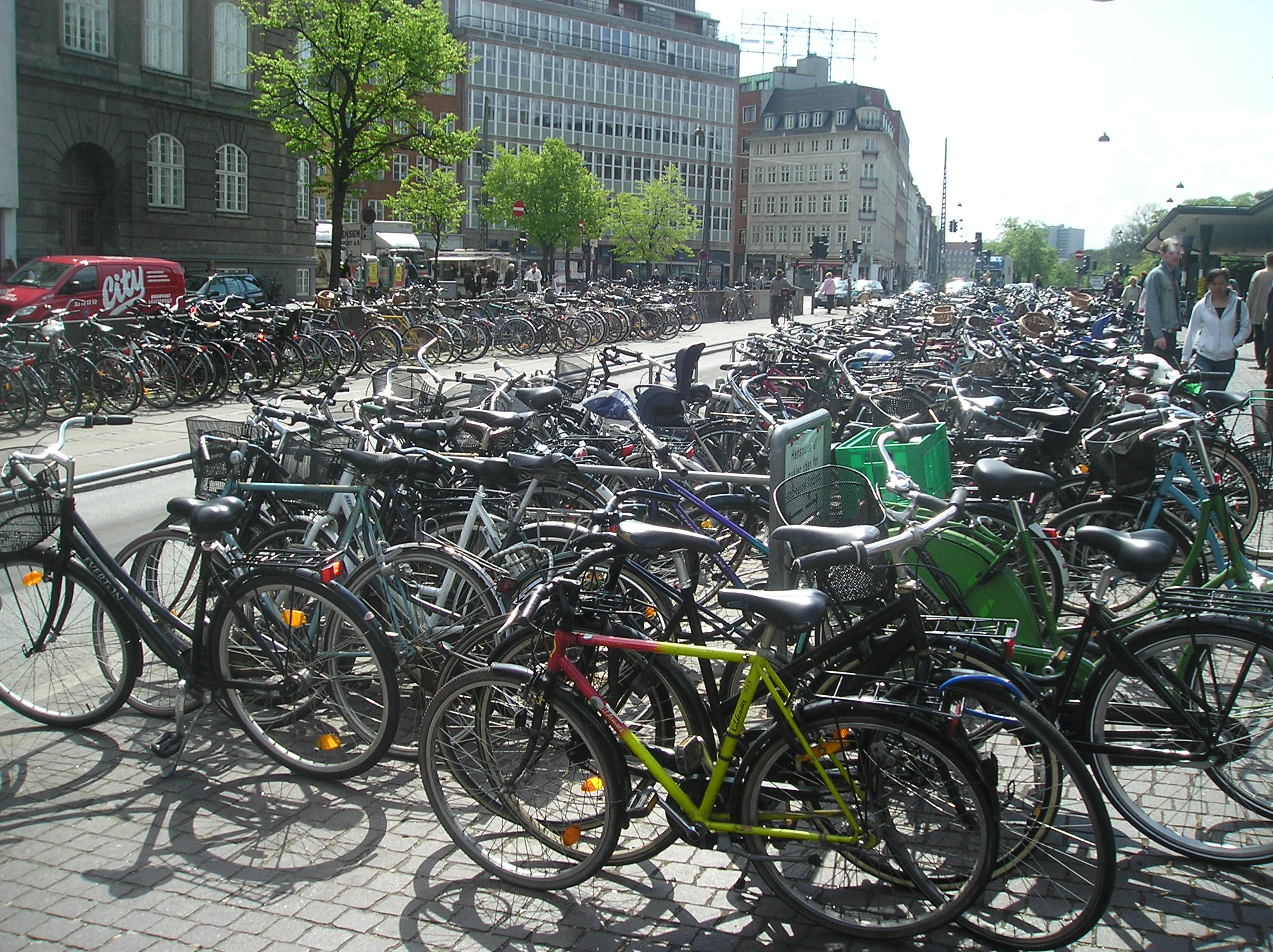 Nørreport Station in Copenhagen. Bike chaos.